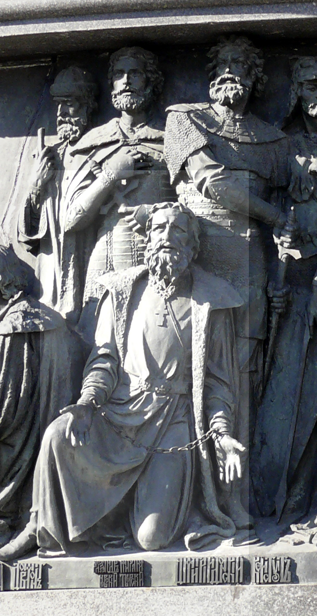 Mikhail Yaroslavich on the Monument "Millennuim of Russia" in Veliky Novgorod